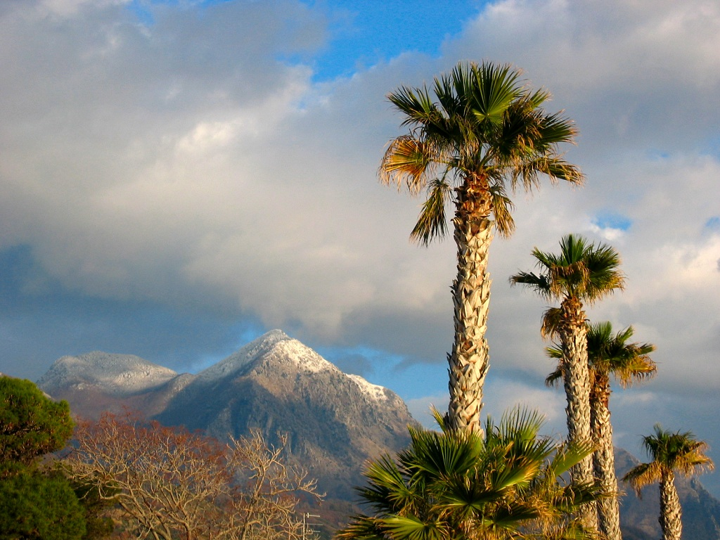 Diamante, Province of Cosenza, Calabria, Italy